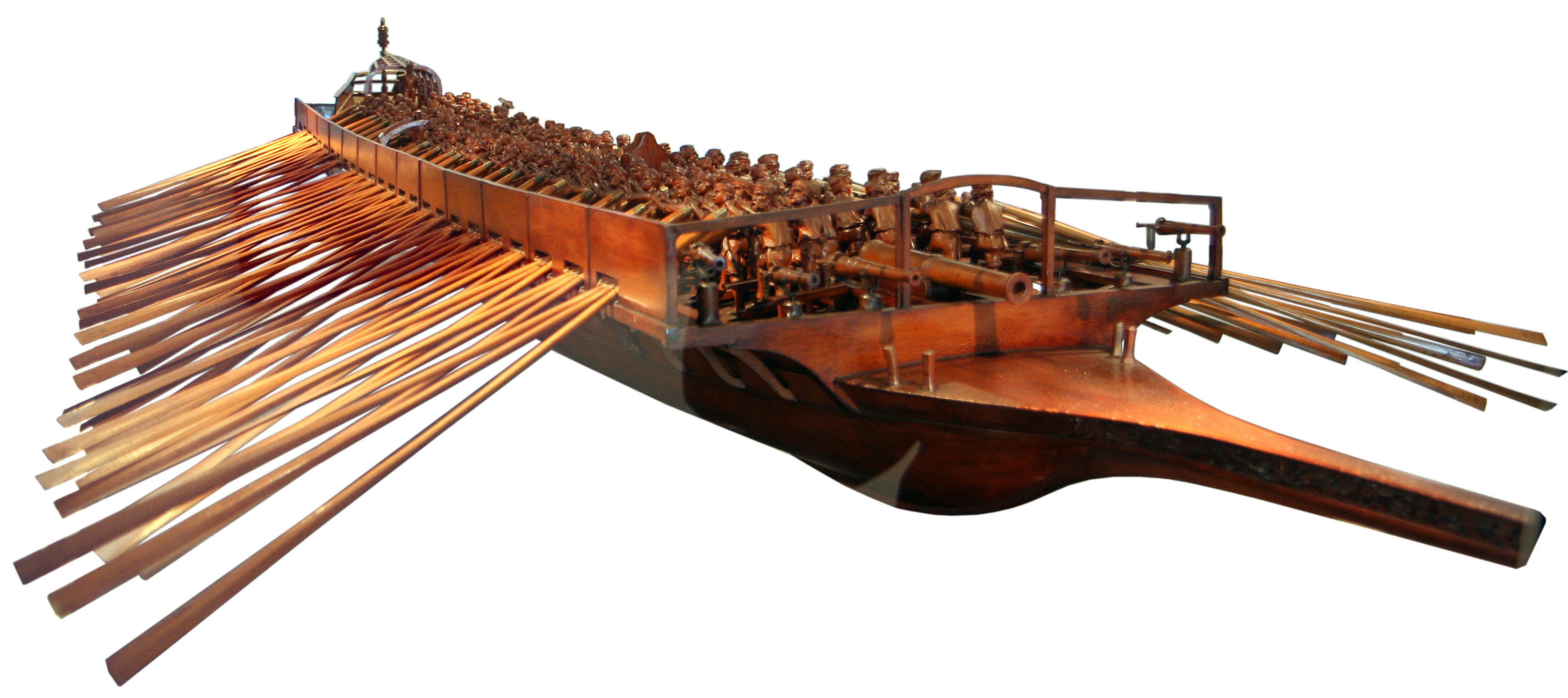 Venice, Museo Storico Navale (navy museum), wooden model of galley with rowers.